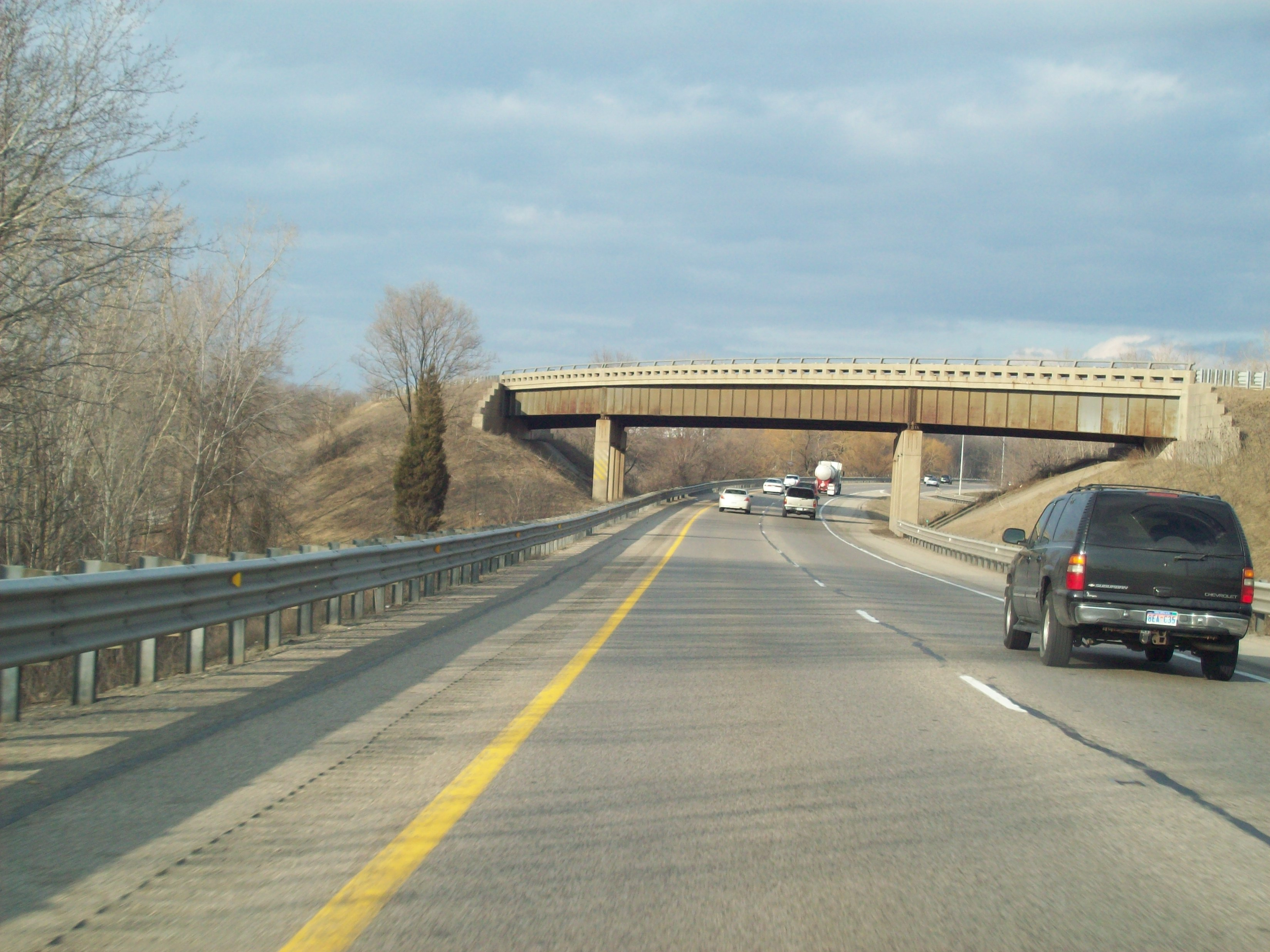 I-196 at exit 70B